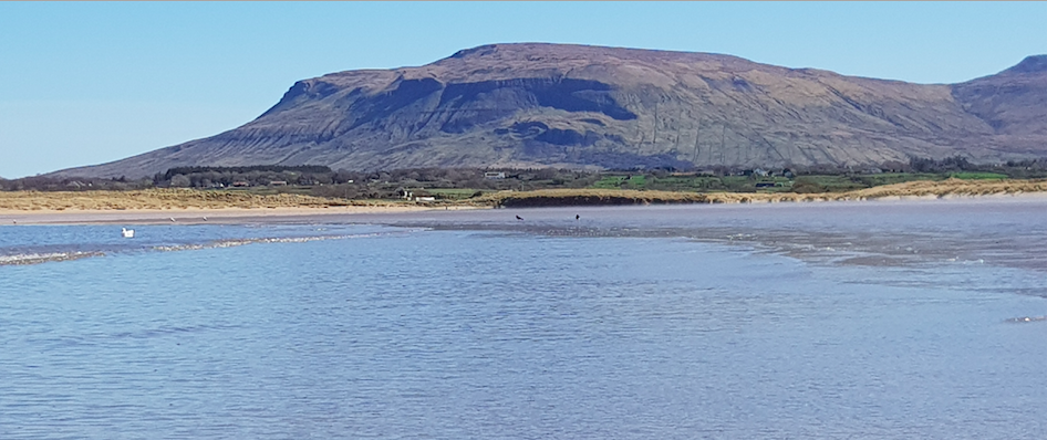 Tievebaun Mountain viewed from Bunduff Beach, Co. Sligo